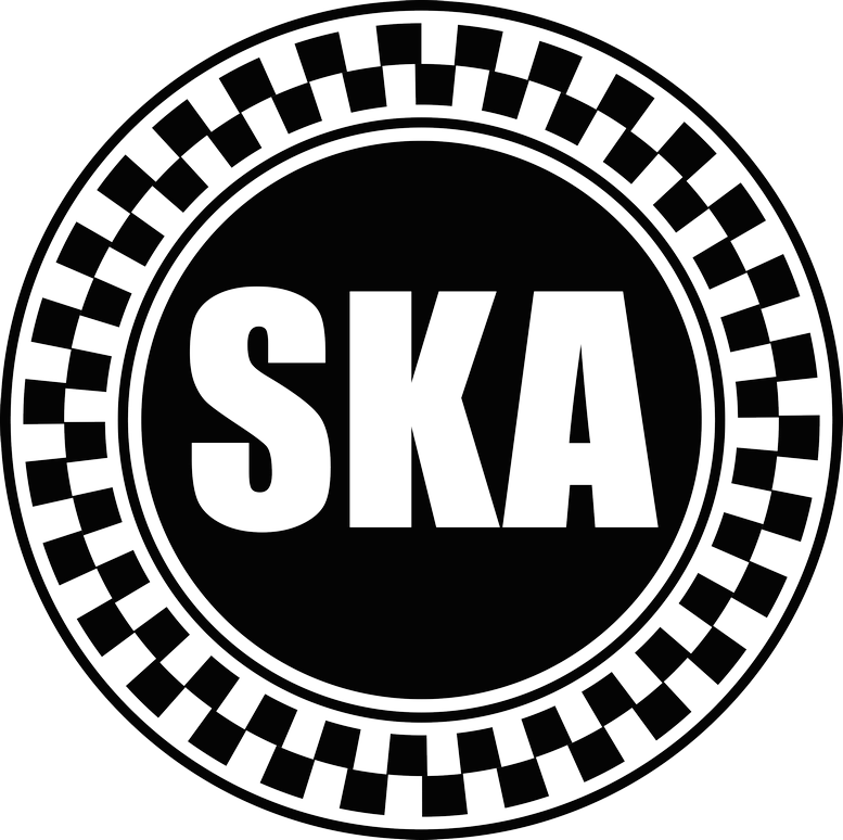 One of the symbol of the "Ska" music is the black and white pattern.